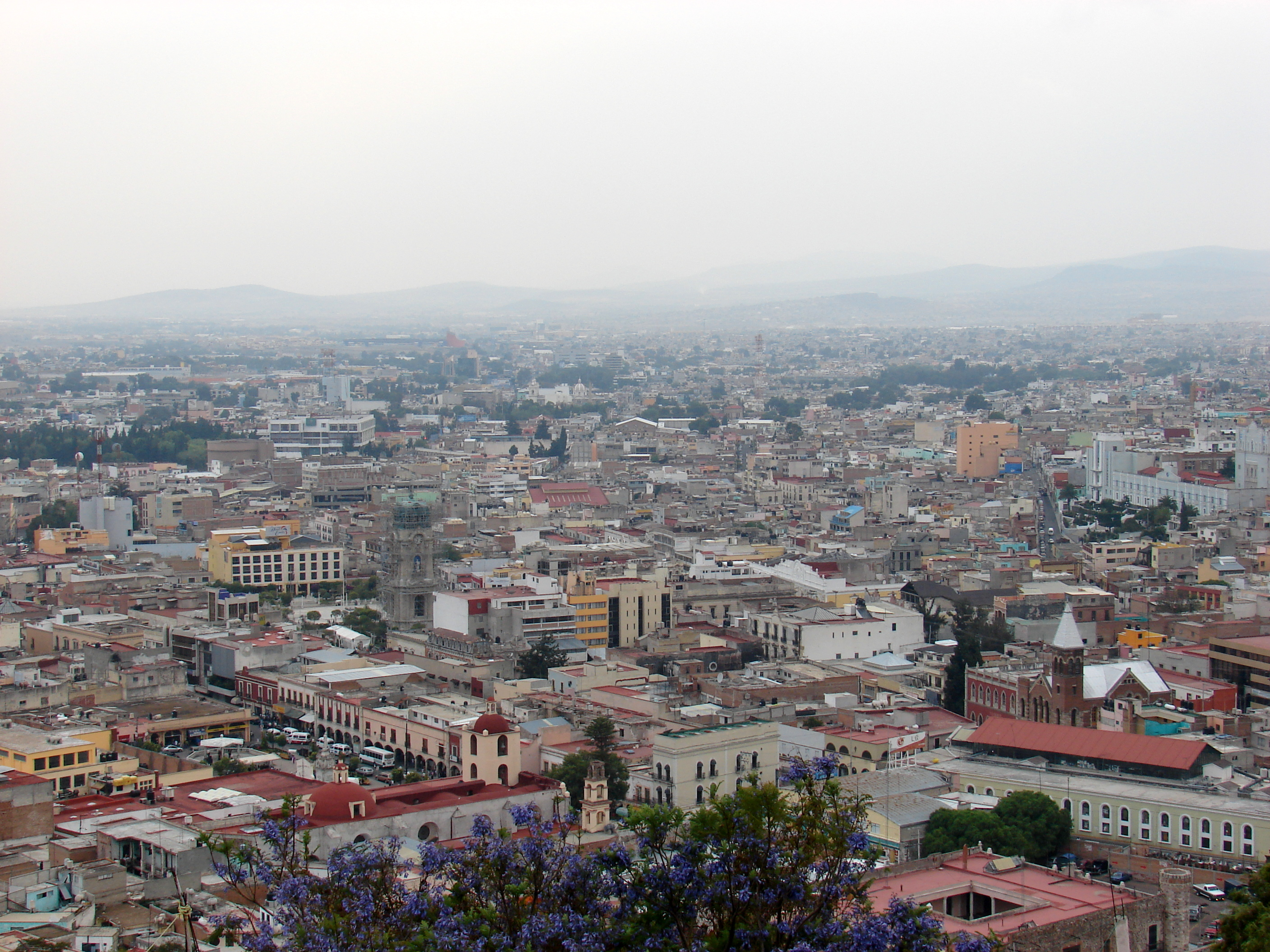 Overview of Pachuca, Hidalgo, Mexico, from the viewpoint on the road to Mount Royal. There is at the forefront Monumental Clock and Independence Square.